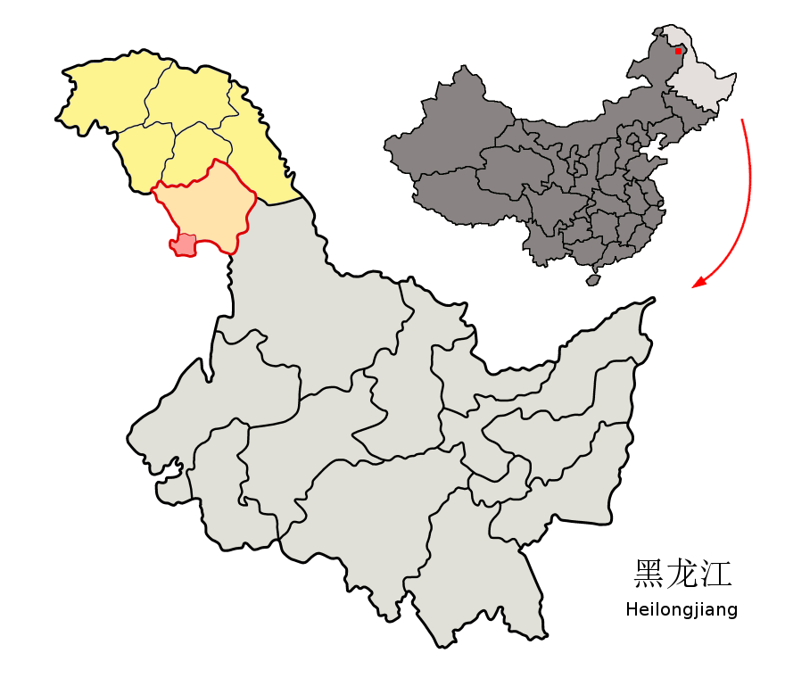 Location of Jiagedaqi District (pink) and Daxing'anling Prefecture (yellow) within Heilongjiang Province of China. Jiagedaqi and Songling Districts (light salmon), under Heilongjiang administration, nominally belong to Inner Mongolia. Map drawn in november 2007 using various sources, mainly : Heilongjiang Province administrative regions GIS data: 1:1M, County level, 1990 Heilongjiang Counties map from Map of Daxing'anling Prefecture